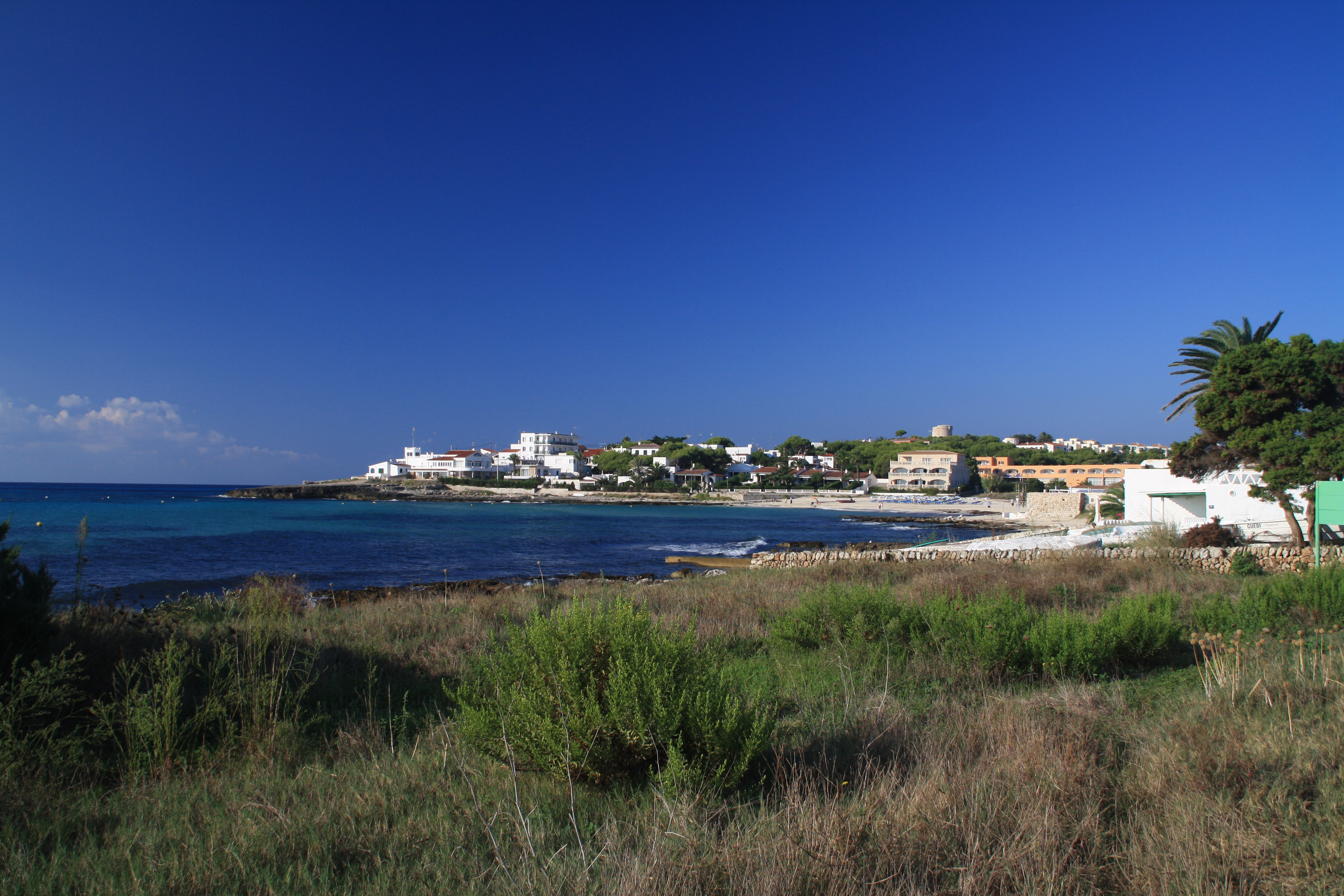 Punta Prima, Sant Lluís, Minorca